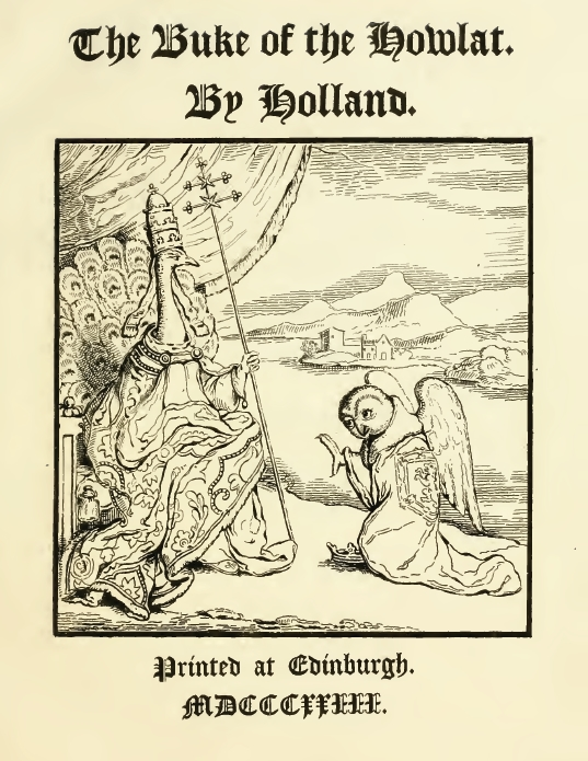 The frontispiece from the 1823 printed facsimile of Richard Holland's 'Buke of the Howlat' (Published by the Bannatyne Club of Edinburgh) The Howlat is petitioning the Pope of birds.